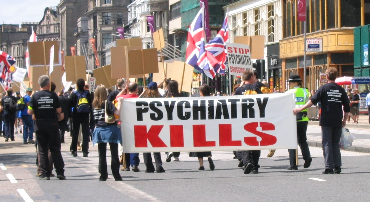 Scientology: anti-psychiatry demonstration in Edinburgh, Scotland